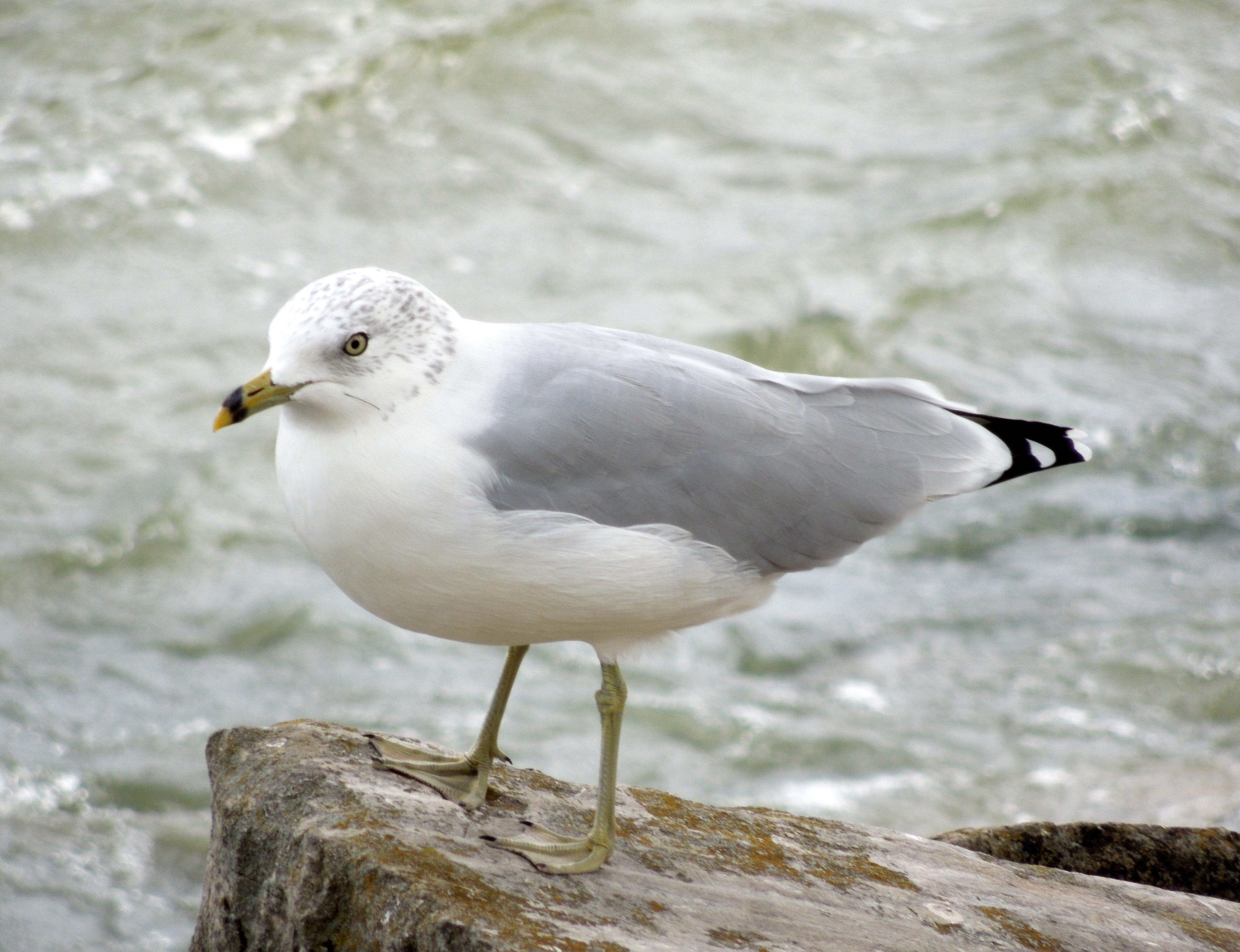 An adult non-breeding Ring-billed Gull at Lake Erie, Ohio, USA.